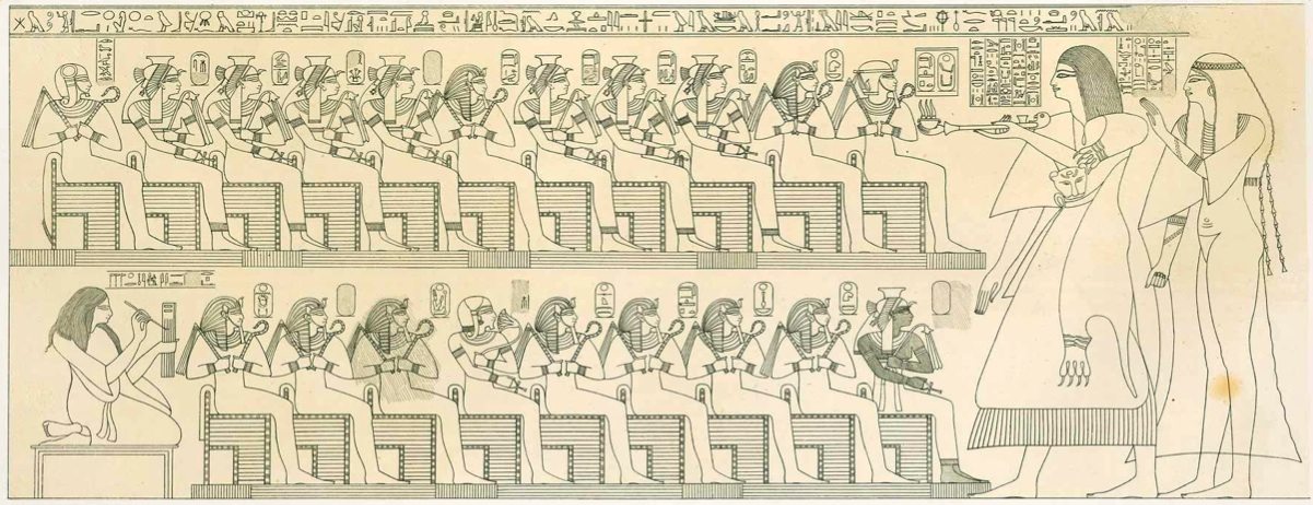 Scene from the tomb of Inherkau (TT359) showing the Lords of the West: Top row, right to left: Amenhotep I, Ahmose, Ahhotep I, Ahmose-Meritamun, Sitamun, Siamun,?, Ahmose-Hennuttamehu, Ahmose-Tumerisy, Ahmose-Nebetta, Ahmose-Sipair Bottom row, right to left: Ahmose-Nefertari, Ramesses I, Mentuhotep II, Amenhotep II, Seqenenre Tao, Ramose?, Ramesses IV, ?, Tuthmosis I. (ref: Dodson-Hilton)